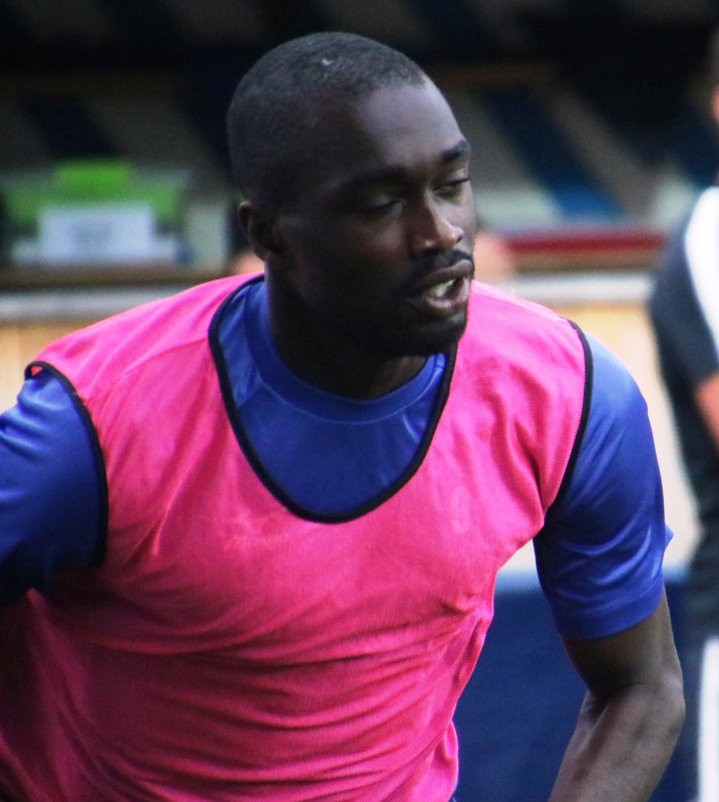 league match Austria 2nd league